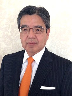 Hiroshi Inomata was inaugurated as Ambassador to Netherlands on 2016.